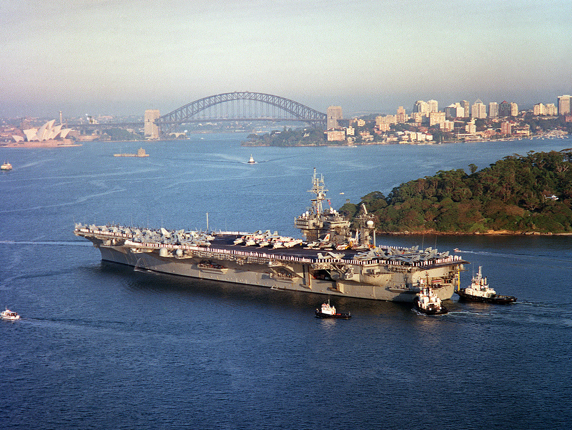 A port side view showing US Navy (USN) Sailors manning the rails of the USS CONSTELLATION (CV 64), as the ship is assisted by tugboats, while entering the harbor at Sydney Australia, during Operation SOUTHERN WATCH. Location: SYDNEY HARBOR, NEW SOUTH WALES AUSTRALIA (AUS)